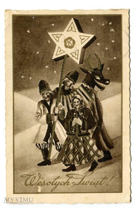 carol singers in Poland, (Christmas) carollers or carolers in Poland